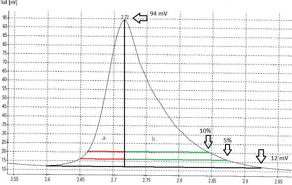 A Chromatogram peak with values